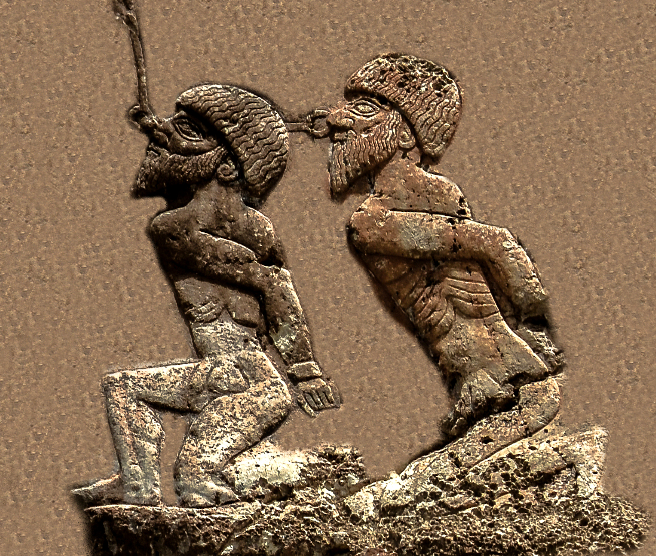 Anubanini relief constituents prisoners